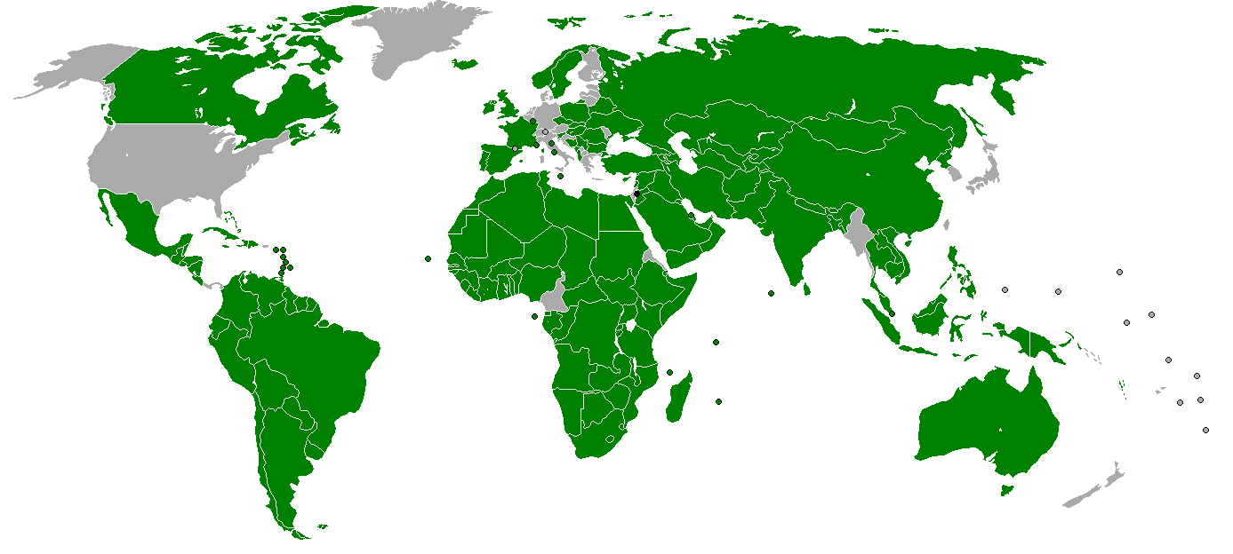 Dark green: Countries that recognise the State of Palestine. Based on sources compiled at International recognition of the State of Palestine.